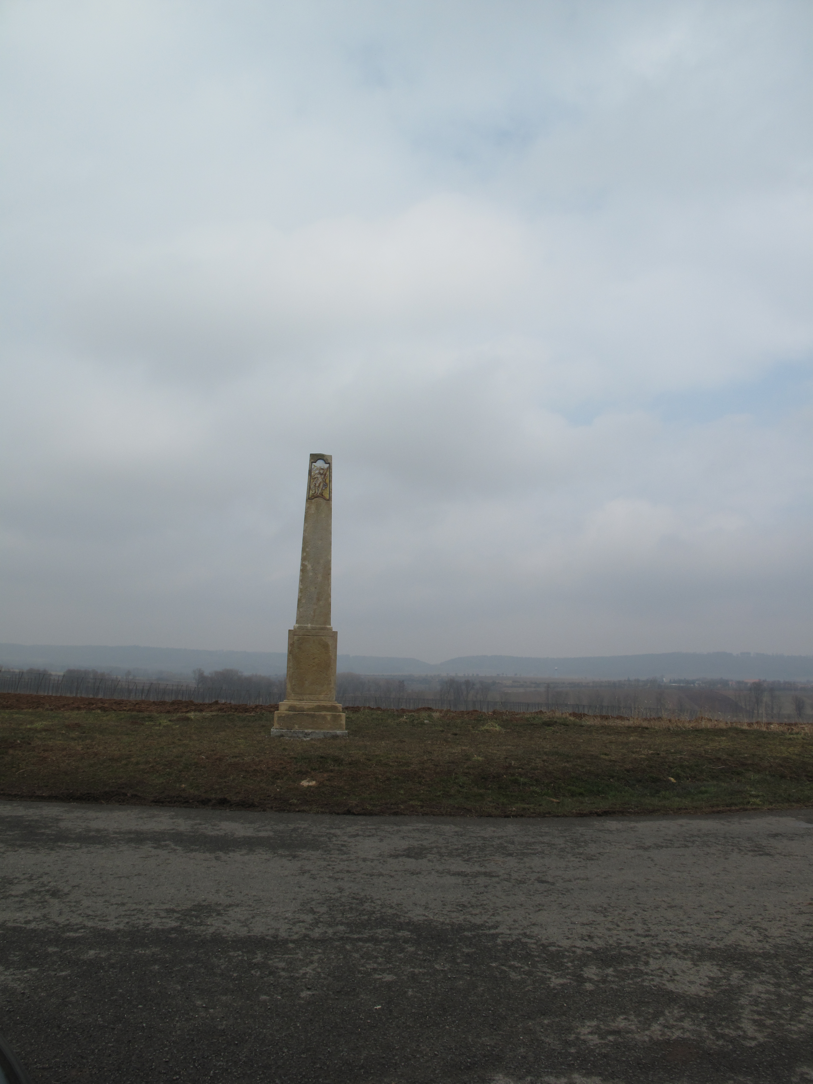 Memmorial in Nesuchyně village, Rakovník District, Czech Republic.